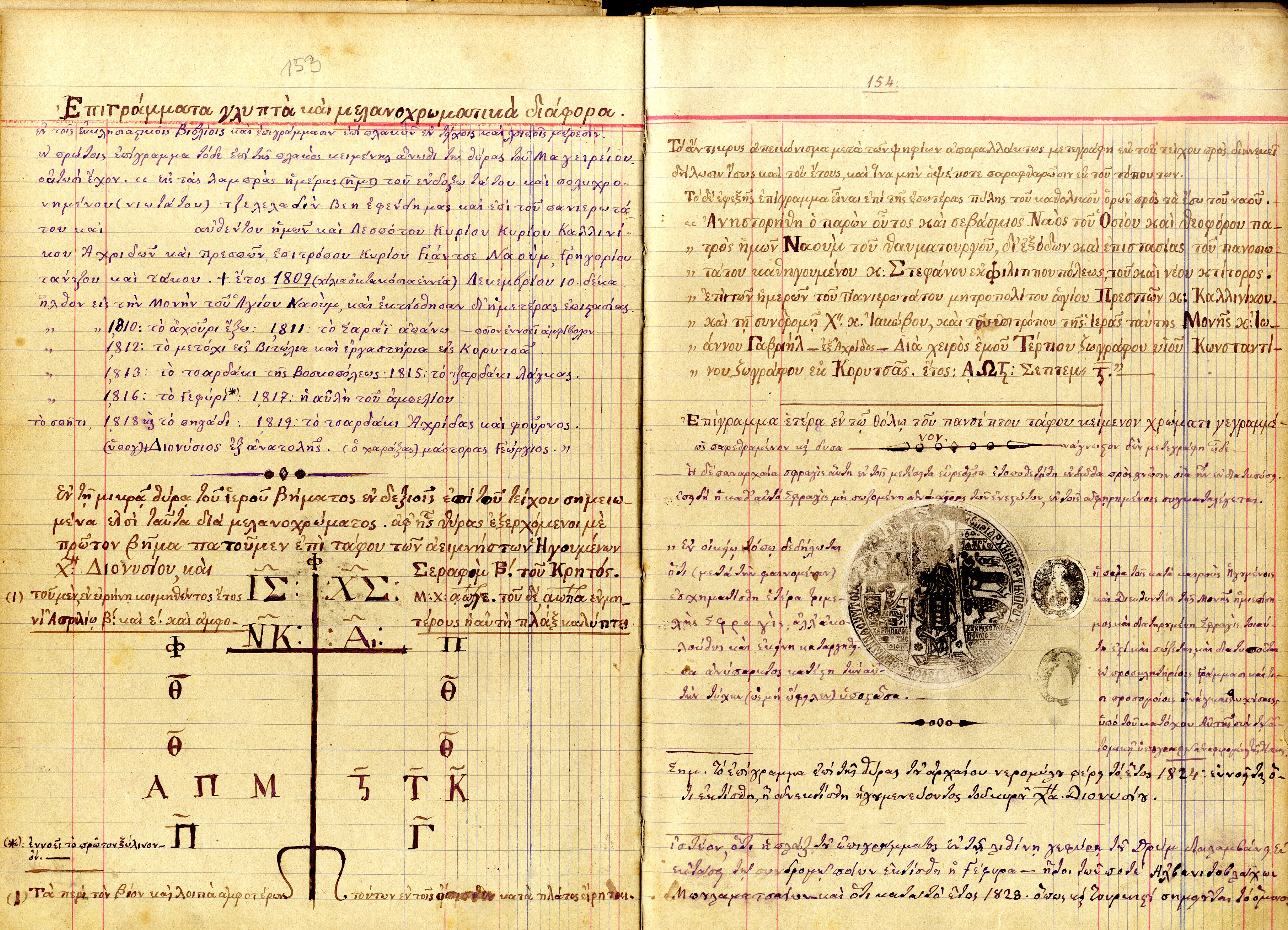 Kodika of the monastery "Sv. Naum ", 1855 years. Fond "Masin Foti" 4,470 signatures This media file is produced by Wikipedian in Residence in Category:Wikipedian in Residence at DARM in 2016.